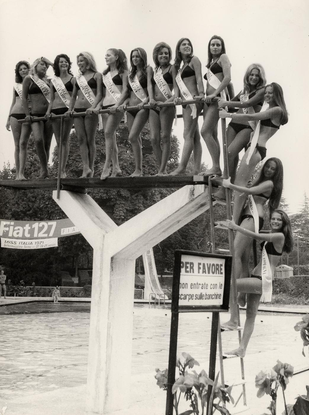 miss italia 1971